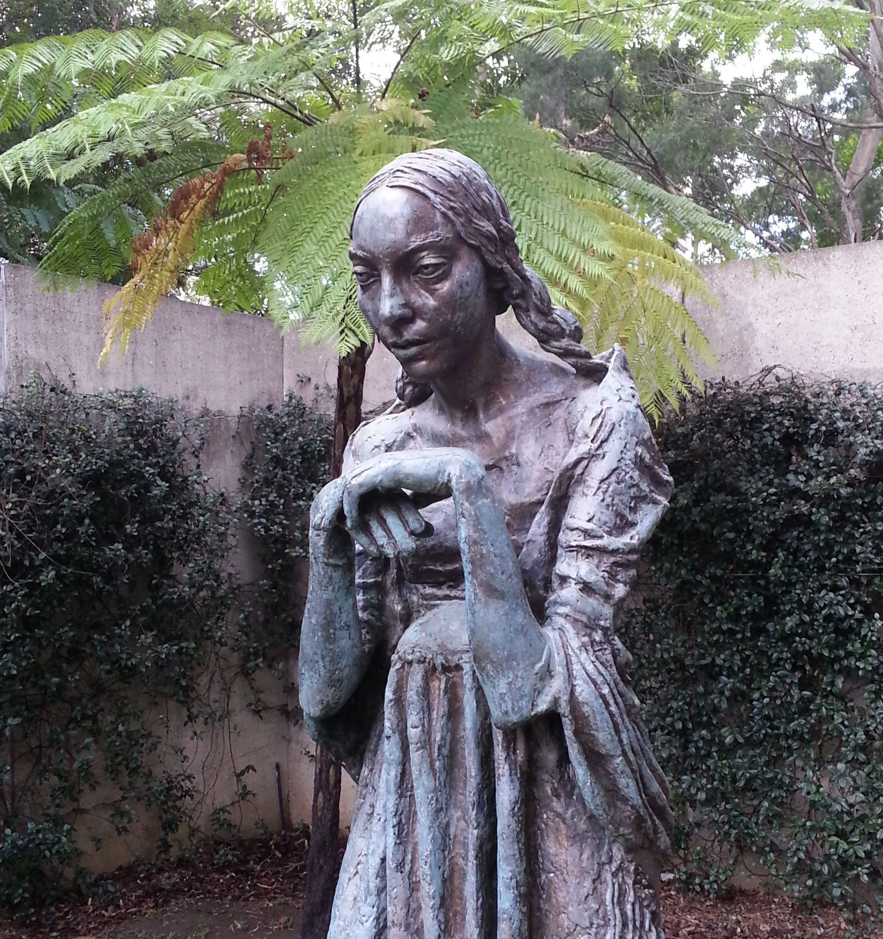 "The Visitation" bronze sculpture, created by Jacob Epstein, designed 1926 and cast in 1958. It is located in the gardens of the Queensland Art Gallery.